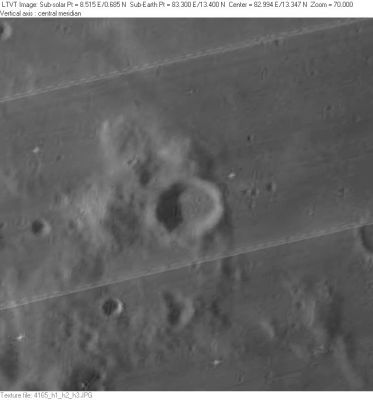 Theiler lunar crater - Lunar Orbiter - IV image Normal Theiler LO-IV-165H LTVT